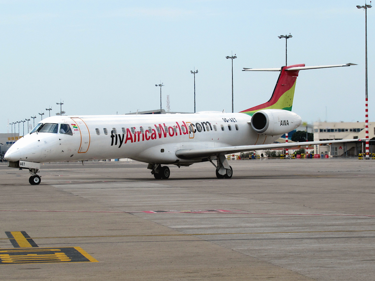 Africa World Airlines ERJ-145LR with registration 9G-AET at Kotoka International Airport in Accra, Ghana